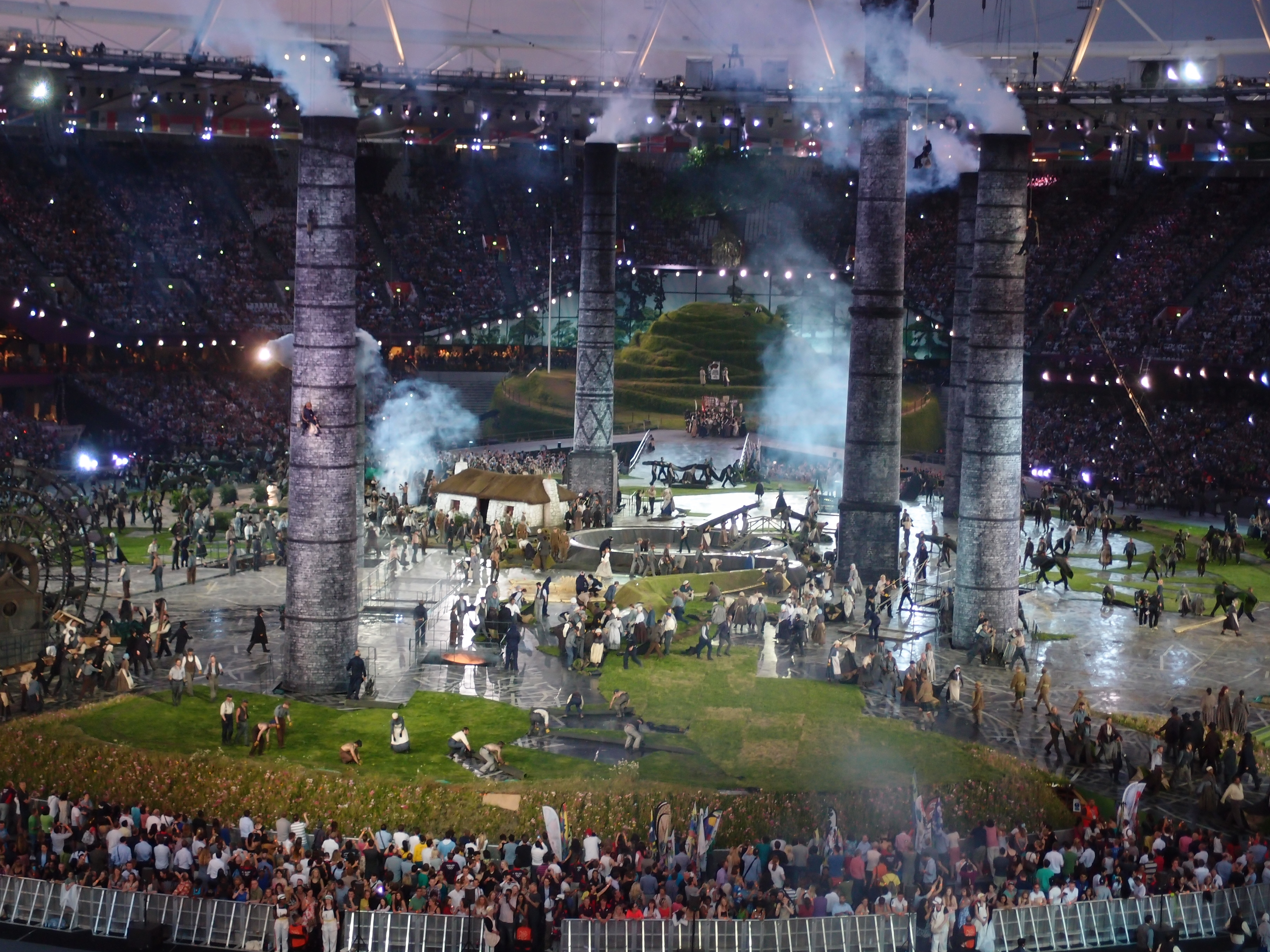 2012 Summer Olympics opening ceremony